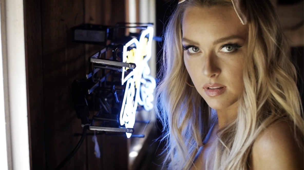 Camille Kostek in a shoot in California on September 10, 2017